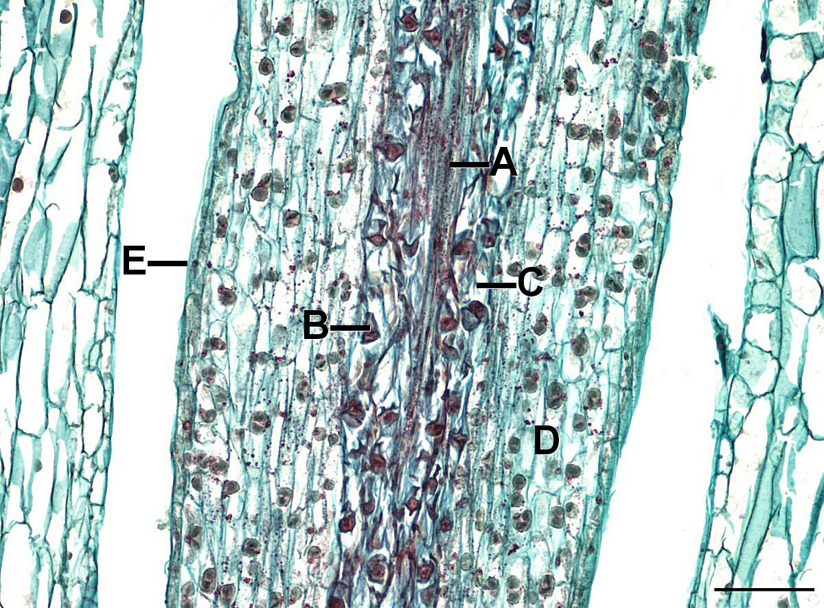 Photomicrograph of the sporophyte of Anthoceros. A-Columella, B-Spore, C-Pseudoelaters, D-Photosynthetic tissue, E-Capsule. Scale=0.1mm.